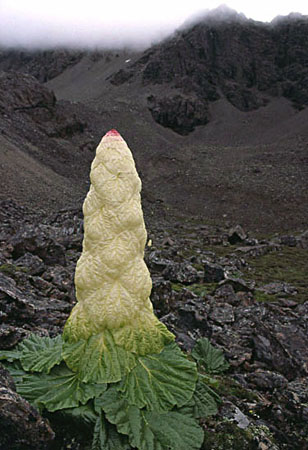 Noble/Sikkim rhubarb (Rheum nobile)